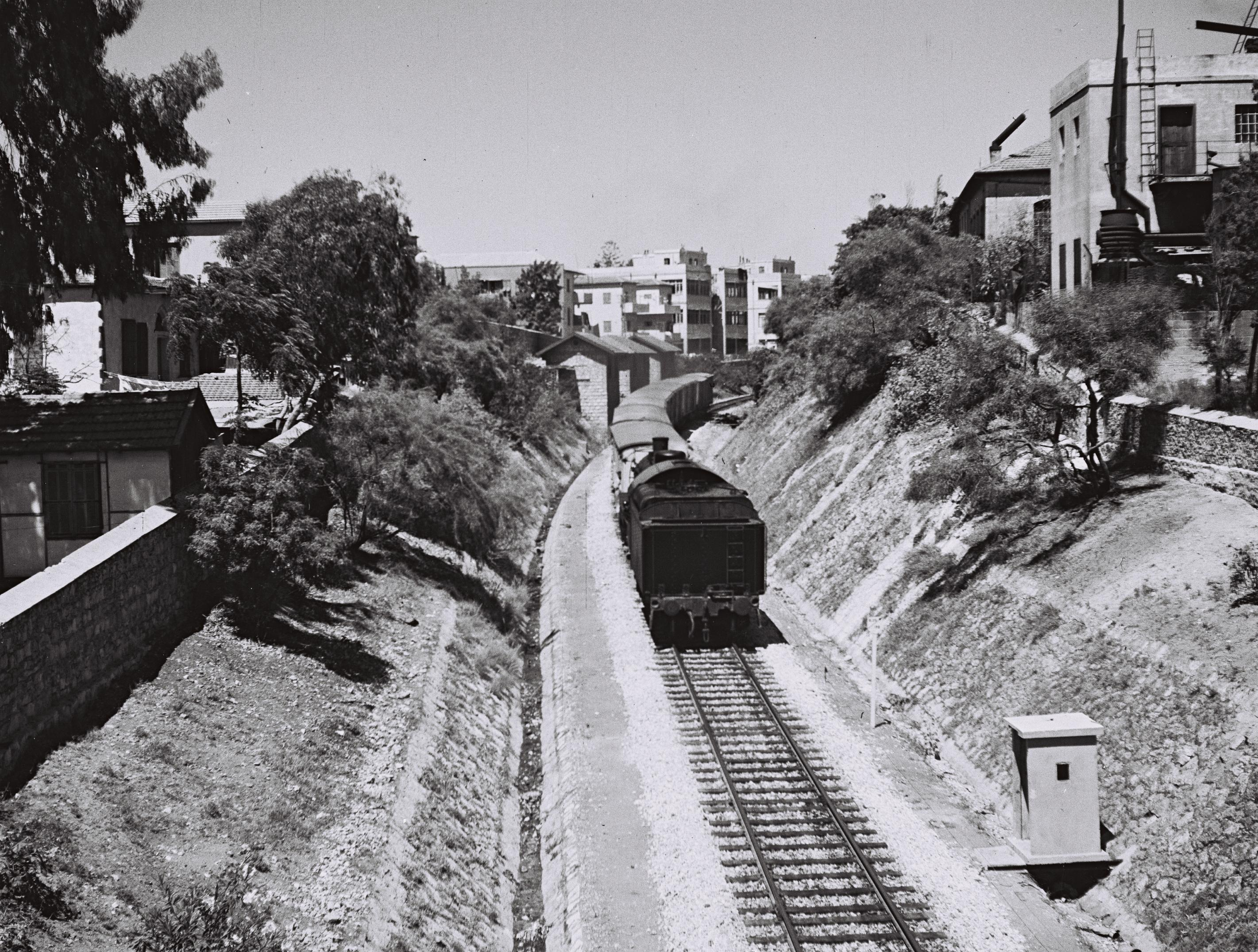 A TRAIN ON ITS WAY FROM TEL AVIV TO JAFFA. רכבת בדרכה מתל אביב ליפו.